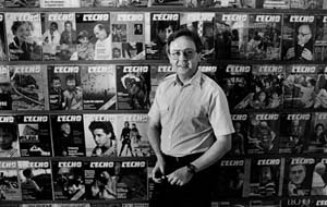 Albert Longchamp